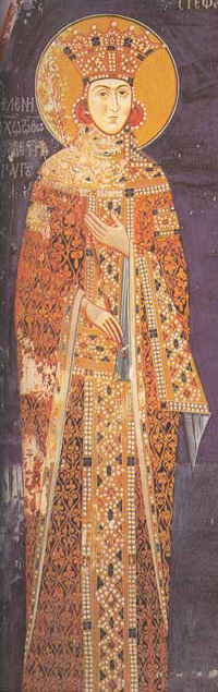 Jelena, wife of tzar Stefan Dushan, middle of XIV century, monastery Lesnovo, Republic of Macedonia